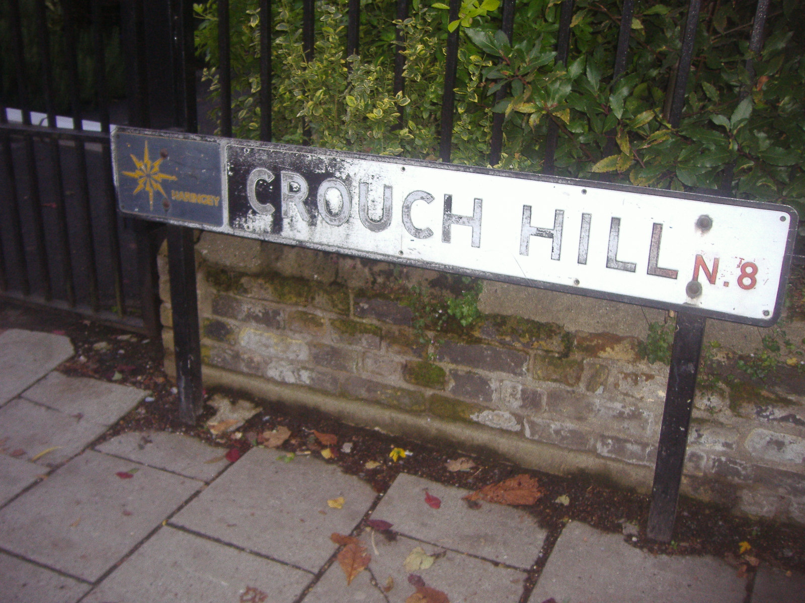 Crouch Hill sign